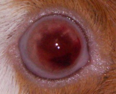 Osseous Choristia in a guinea pig